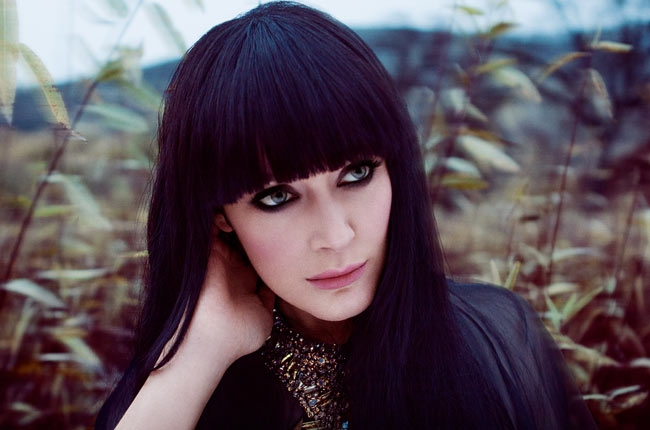 Profile image of Epic Record artist Ginny Blackmore